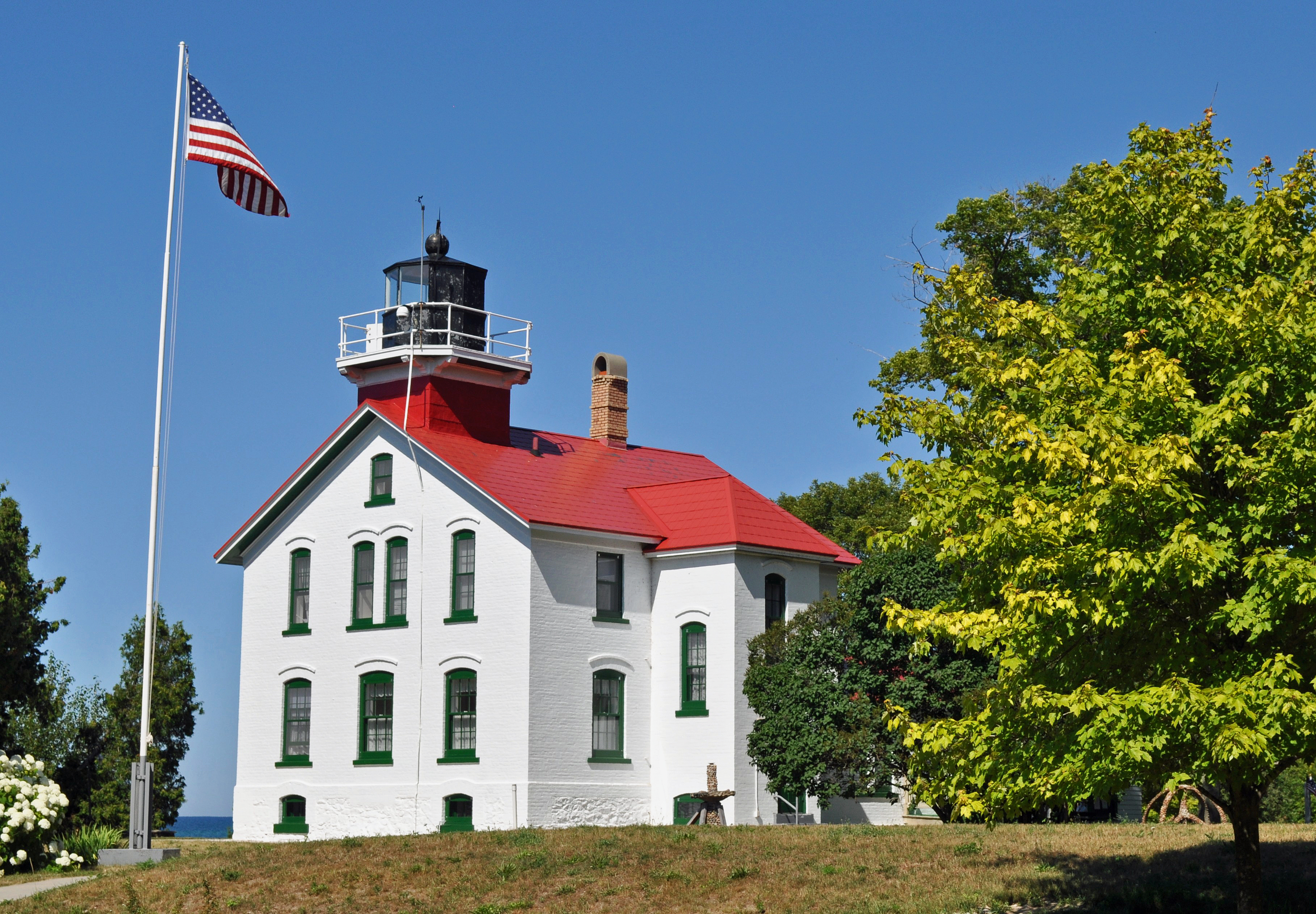 The Grand Traverse lighthouse stands at the tip of Michigan's Leelanau peninsula which separates Lake Michigan from the Grand Traverse Bay.